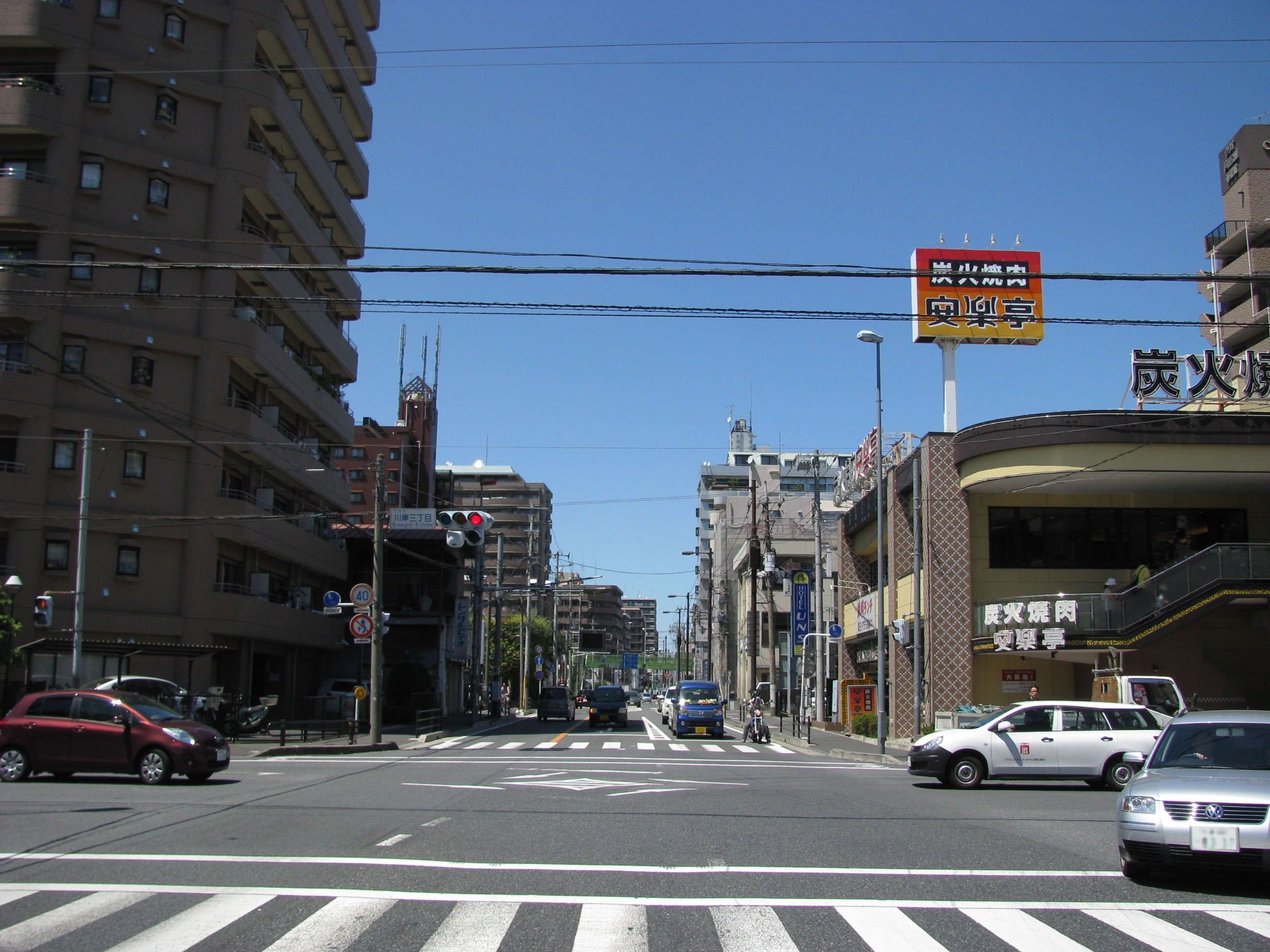 The Japan National Route 17. This location is Kawagishi in Toda, Saitama Prefecture, Japan.